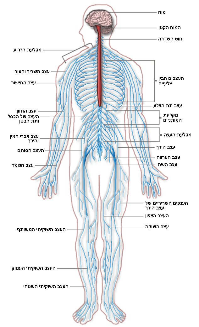 Note: See the version numbered to create or enhance one translation. If you can, thank you to make this description accessible to all by translating it into other languages.